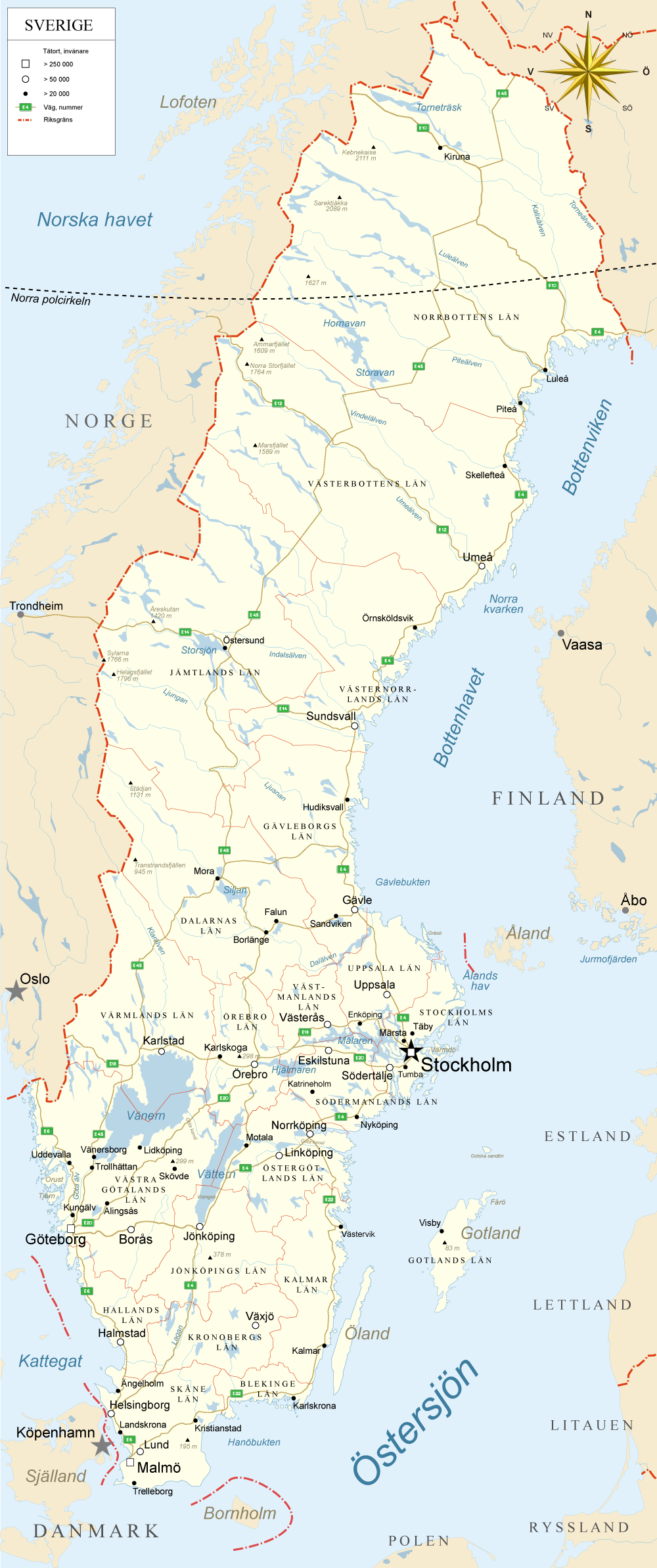 Map of Sweden with cities and country borders.